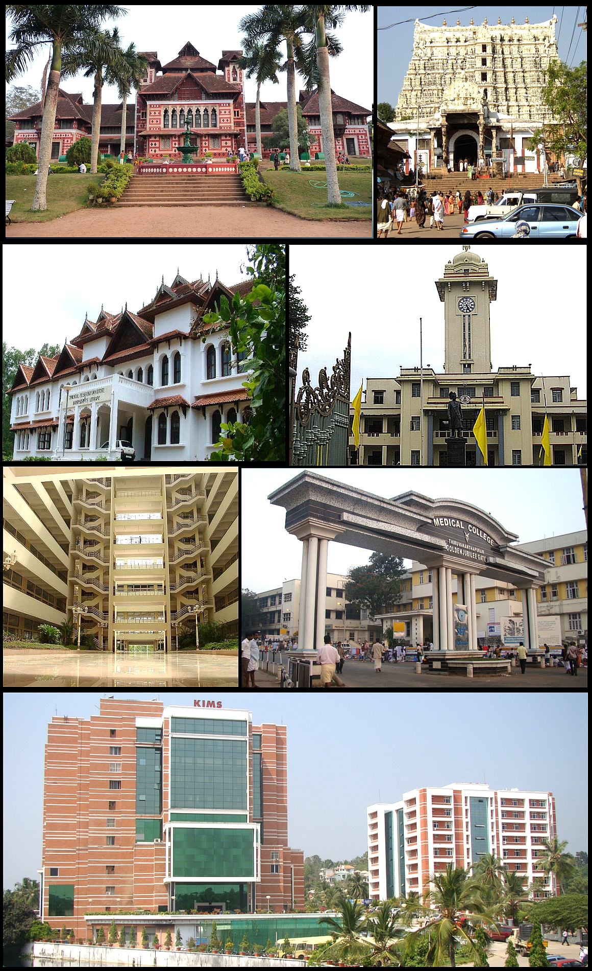 From top clockwise: Napier Museum, Padmanabhaswamy Temple, University of Kerala, Medical college Thiruvannathpuram, Kerala Institute of Medical Sciences, Bhavani building in Technopark and The Oriental Research Institute & Manuscripts Library